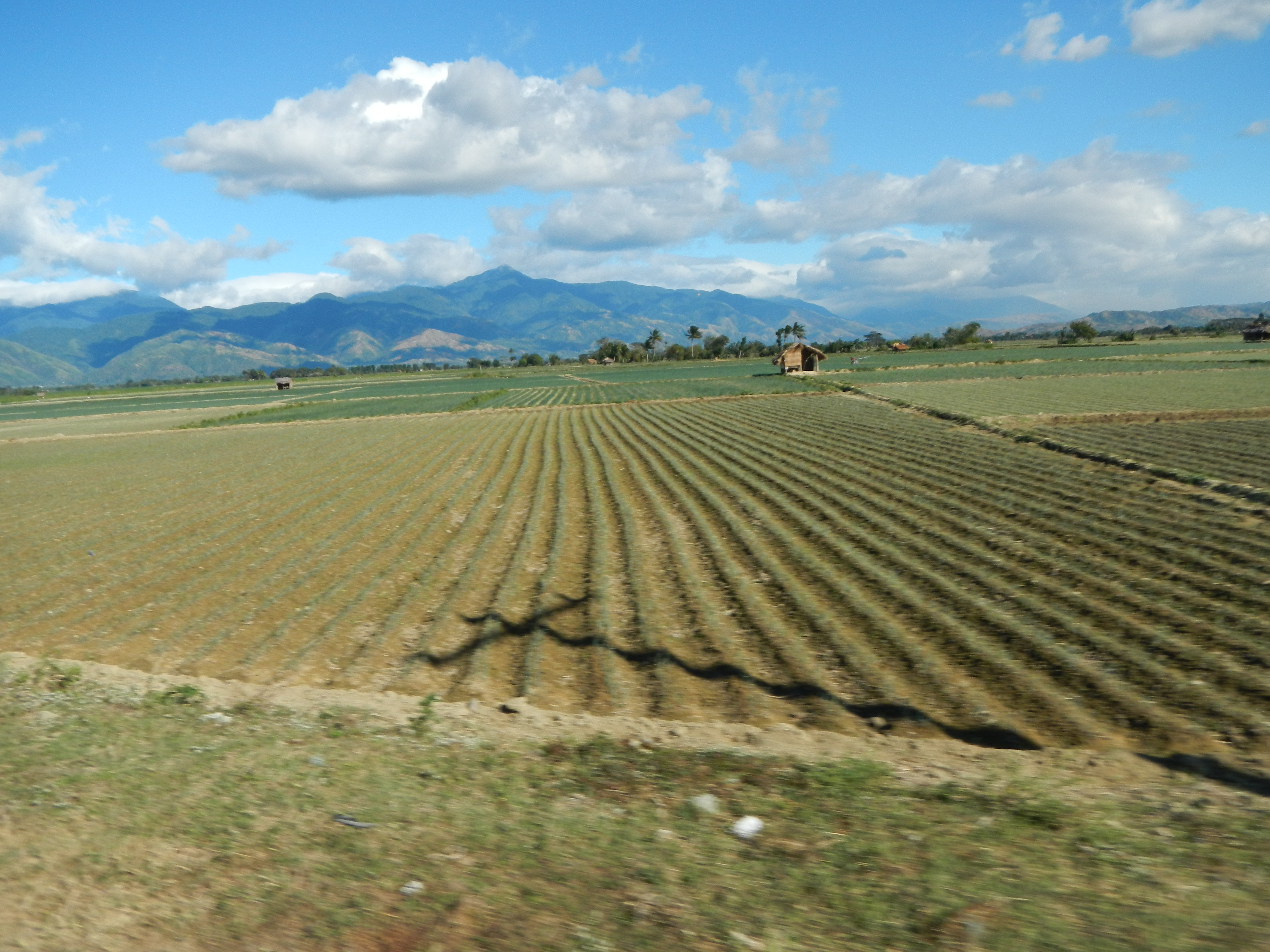 [1]Bongabon, Nueva Ecija is a second class municipality in the province of Nueva Ecija, Philippines. According to the 2010 census, it had a population of 59.343 people. It has an area of 28,352.90 hectares (70,061.5 acres), and is the leading producer of onion ("Onion Capital of the Philippines") in the Philippines and in Southeast Asia.[2]Hon. Amelia A. Gamilla Municipal MayorHon. Edmond E. Arive - Municipal Vice Mayor[3]